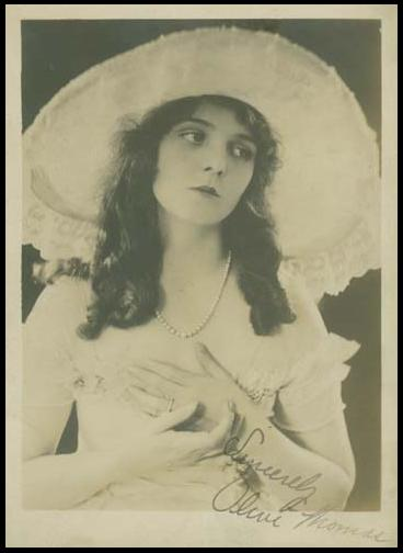 Scarce autographed portrait of Olive Thomas, circa 1916. From the private collection of Dr. Gary Brucato Jr.